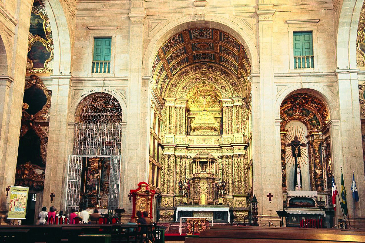 Interior of the former Jesuit Church of Salvador, Bahia, Brazil